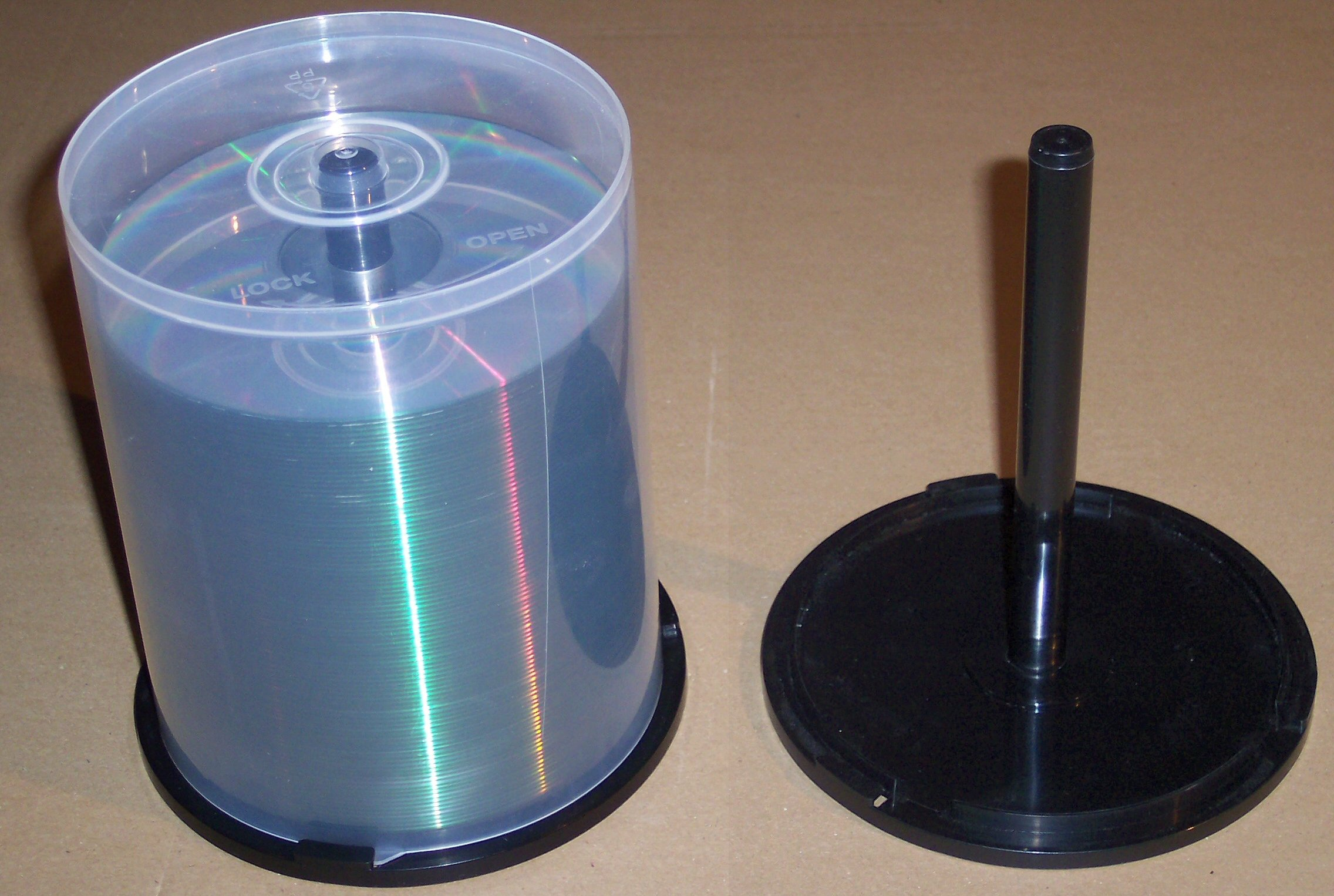 Cakebox; 100 CDs/DVDs collage Version a Public Domain Foto made by Gary Luck, Germany